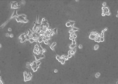 made by he:משתמש:Itayba